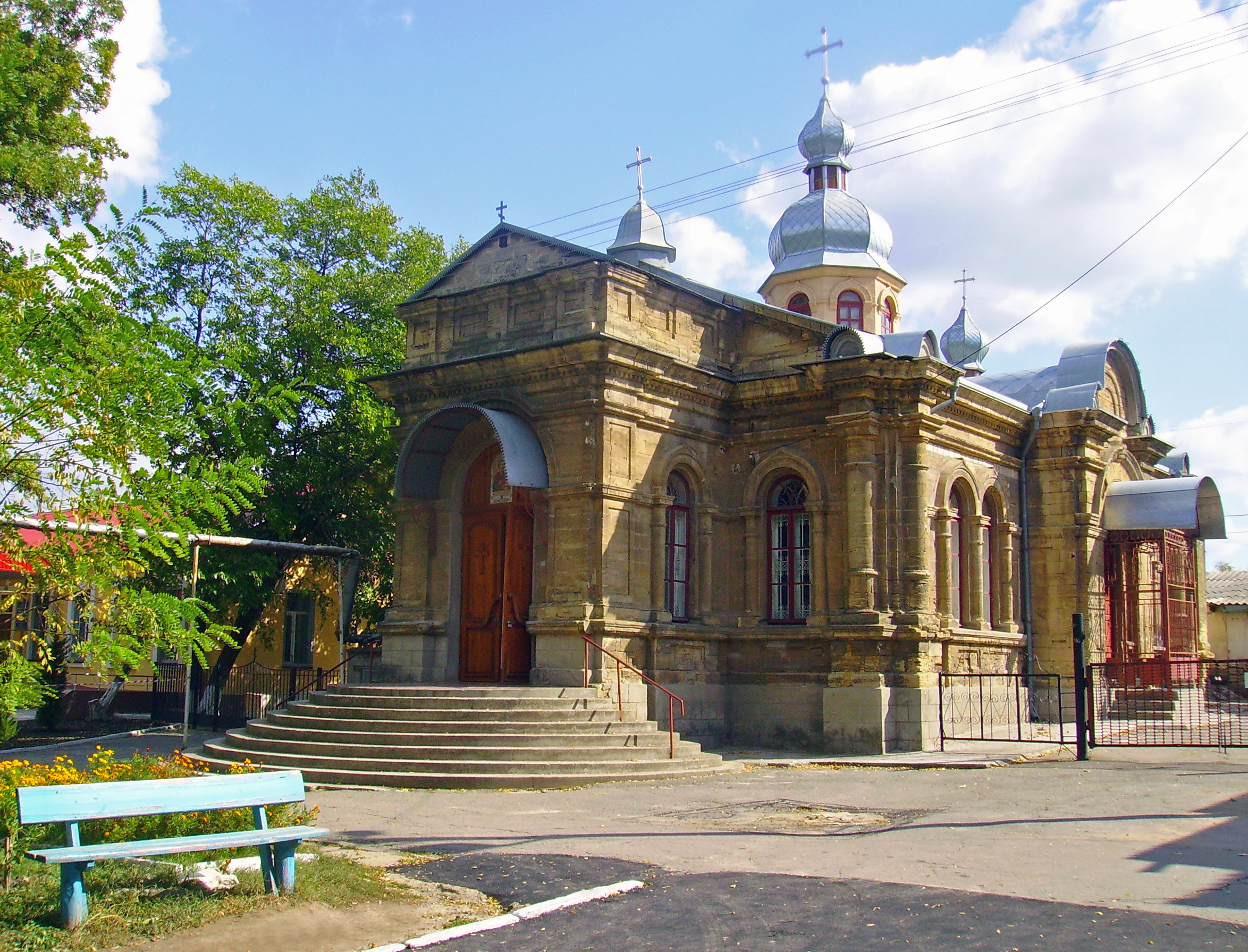 Mykolaiv. St. Pantheleymon Church